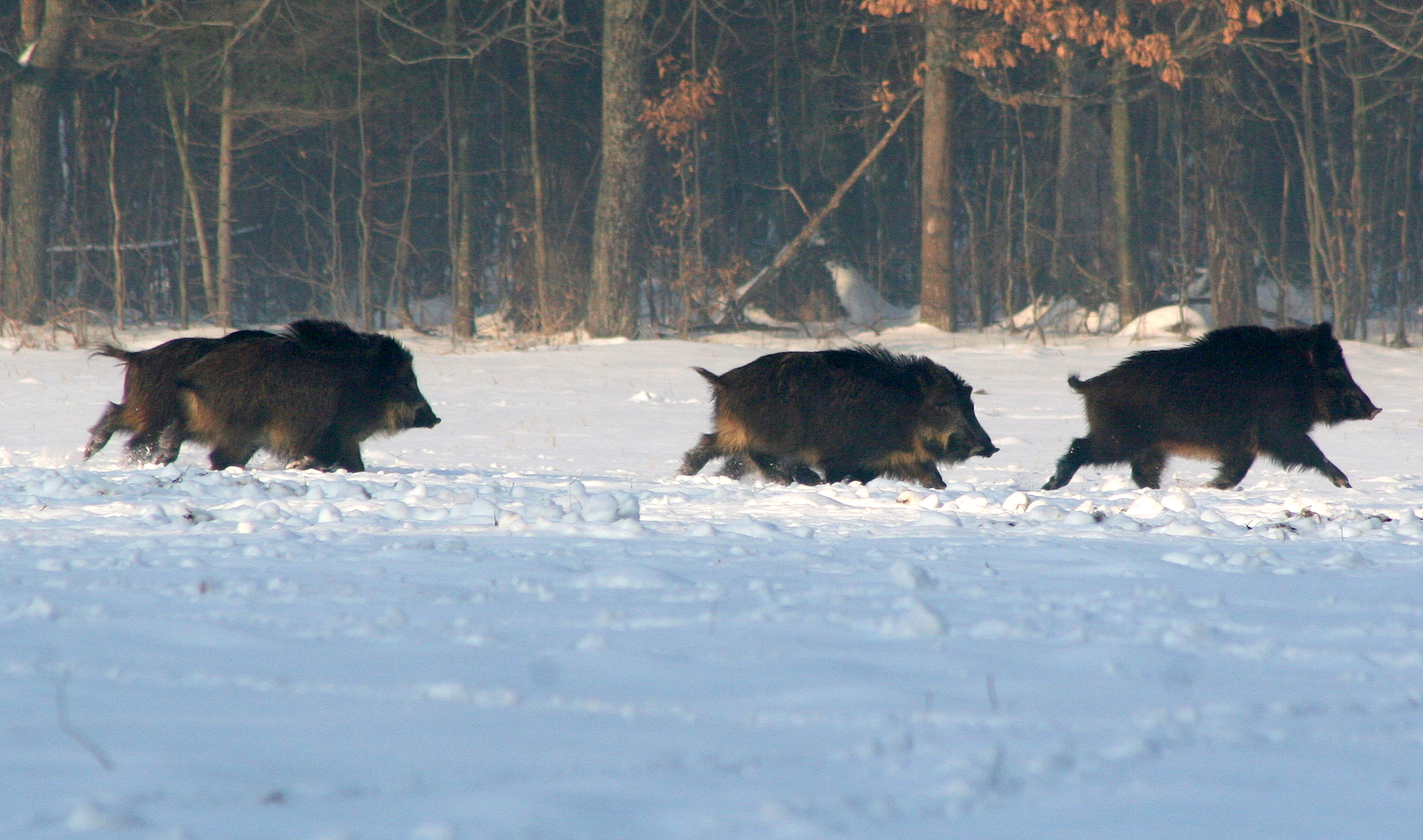 wild boar in the winter